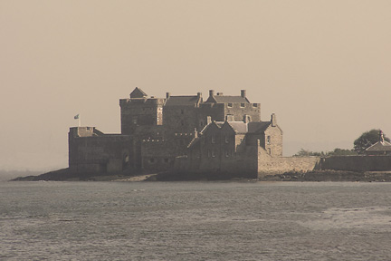 Blackness Castle